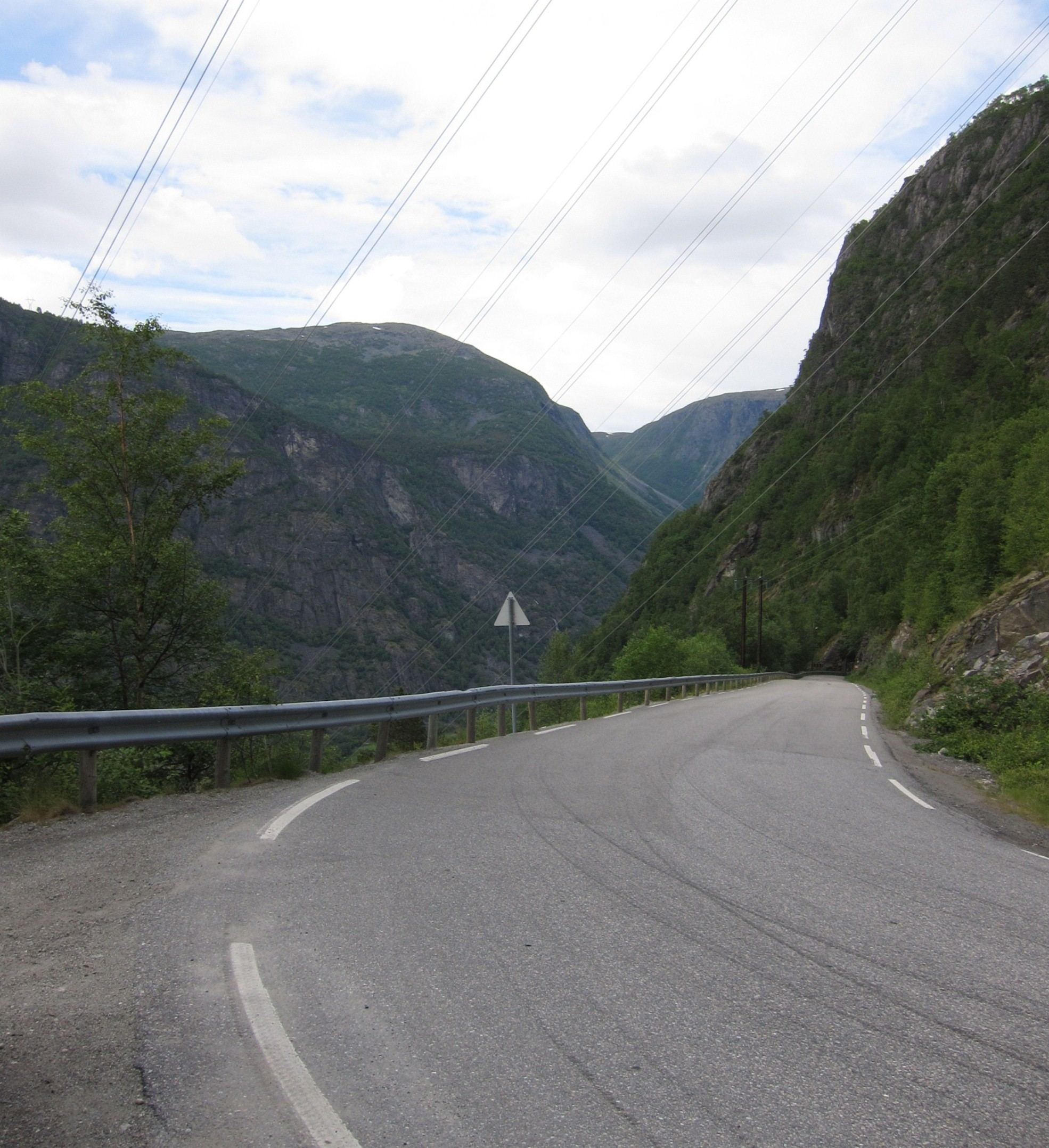 Låvisberget hill on Fylkesveg 50 (road 50), Aurland. Lange tunnel (hairpin tunnel) in the distance. 407 meters above sea level